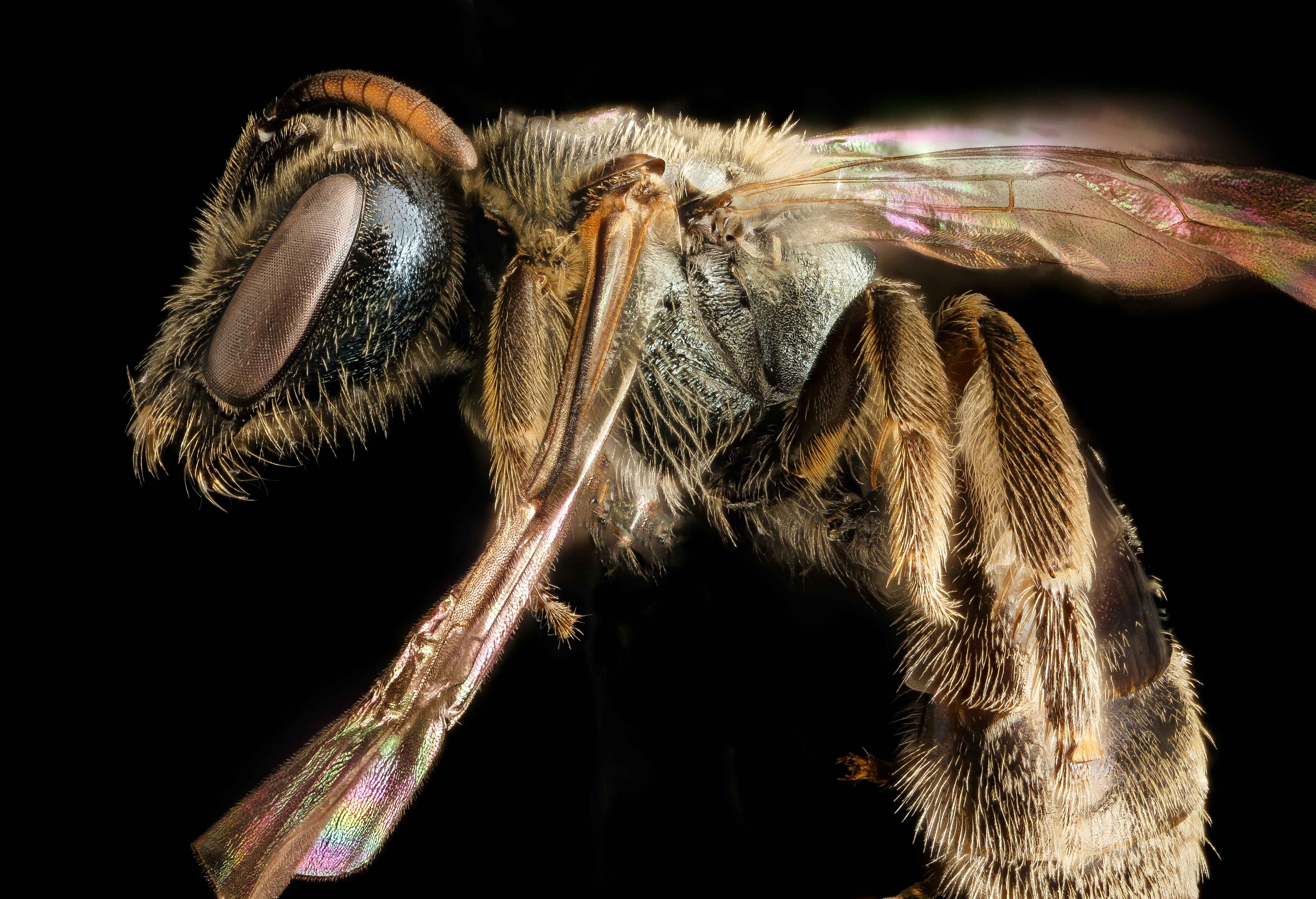 6 views of Lasioglossum species which from the sandy areas of Humboldt County, in Redwoods National Park. An Unknown but interesting species, it will have to wait for someone to come along who knows more that we do. Picture by Amanda Robinson. All photographs are public domain, feel free to download and use as you wish. Photography Information: Canon Mark II 5D, Zerene Stacker, Stackshot Sled, 65mm Canon MP-E 1-5X macro lens, Twin Macro Flash in Styrofoam Cooler, F5.0, ISO 100, Shutter Speed 200